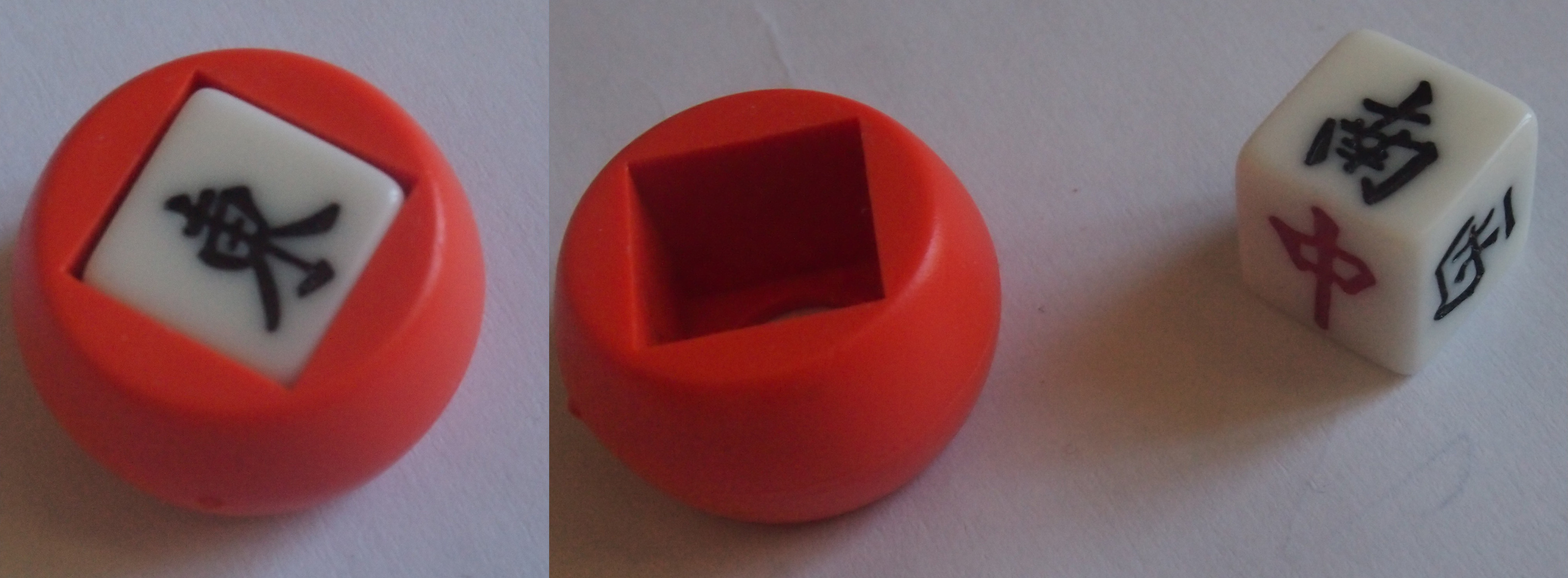 Mahjong Tion. Wind indicator